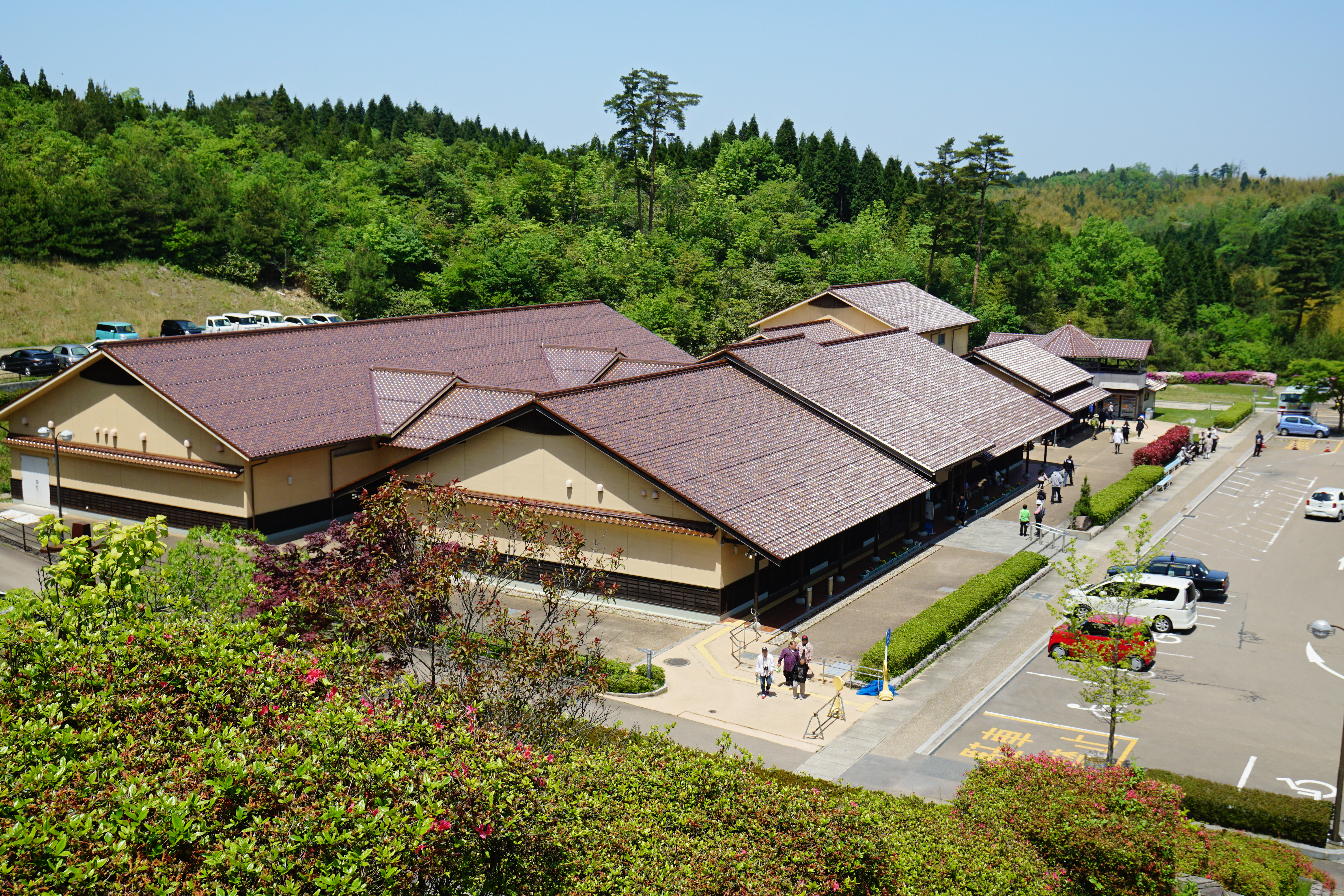 Iwami_Ginzan_World_Heritage_Center in Ōda, Shimane prefecture, Japan.